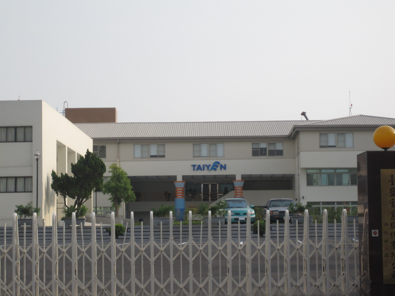 Taiyen Biotech headquarters.